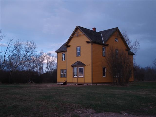 Old Bay House. I took the picture.